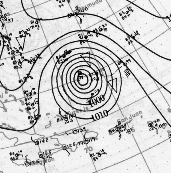 Surface analysis of the 1927 Nova Scotia hurricane north of the Greater Antilles at peak intensity as a Category 3 hurricane, with winds of 125 mph (205 km/h).